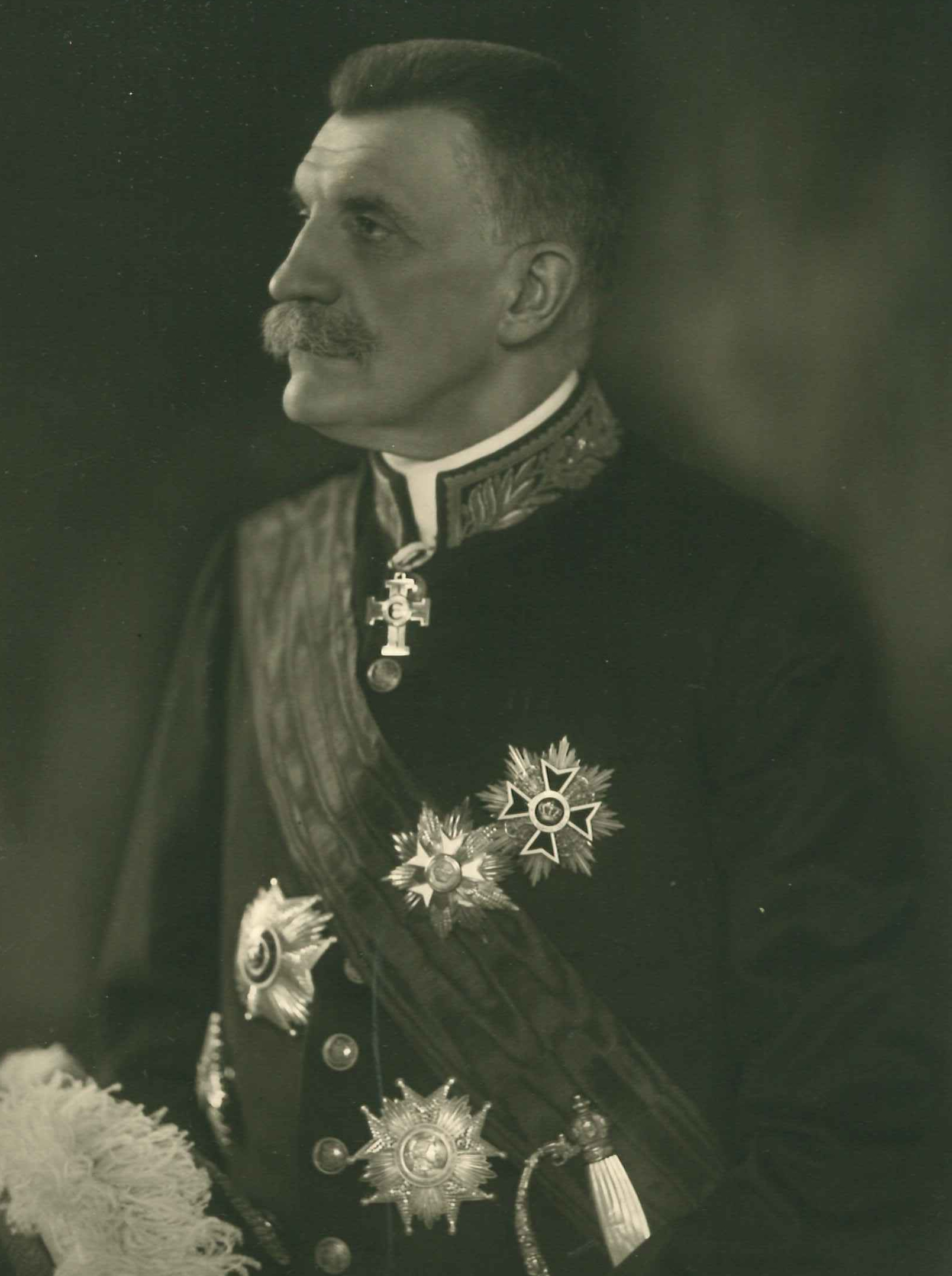 Prosper Antoine Marie Joseph, Viscount Poullet (5 March 1868–3 December 1937) was a Belgian politician.